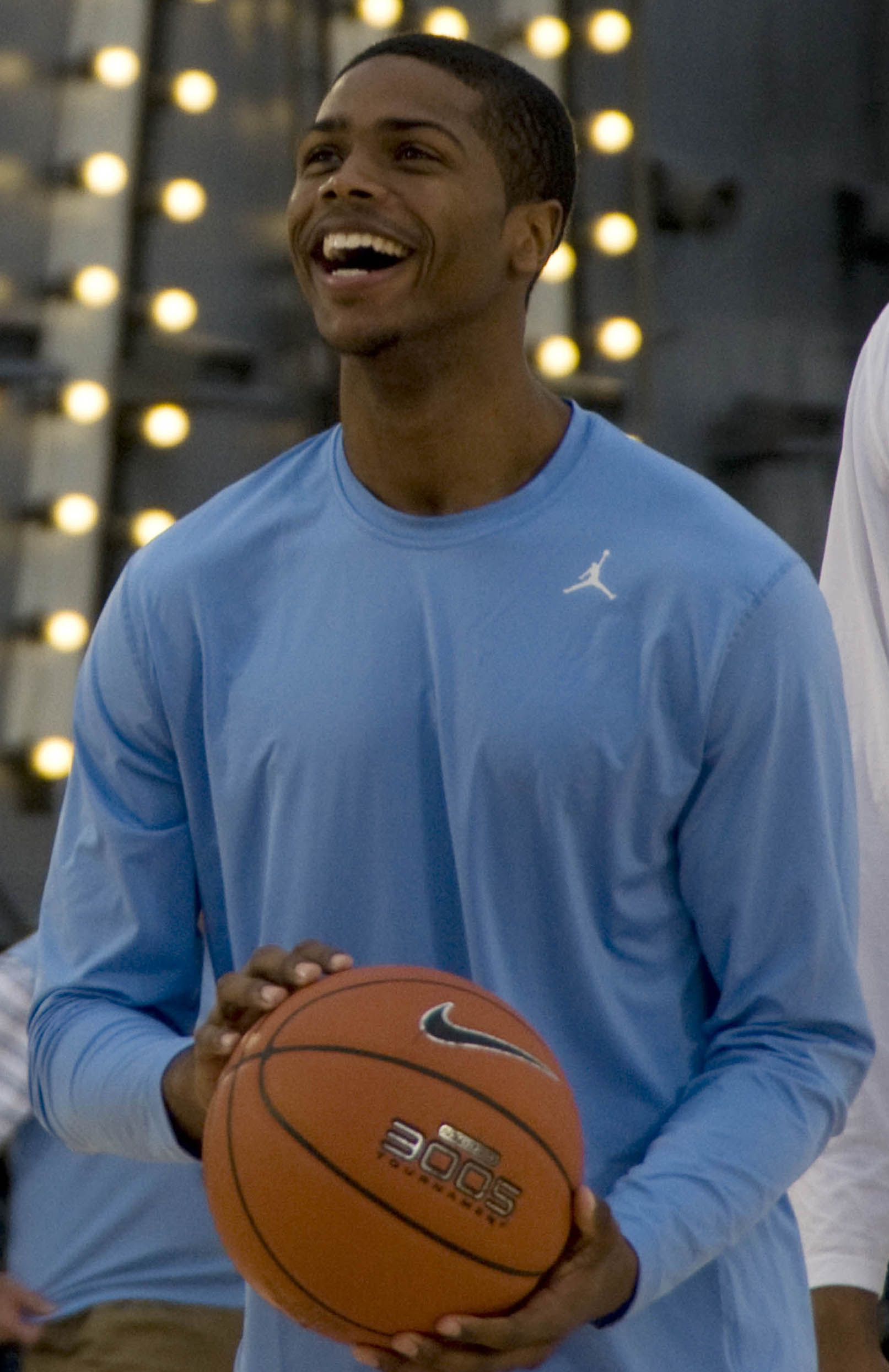 SAN DIEGO (Nov.10, 2011) University of North Carolina basketball players Dexter Strickland, left, and John Henson, right, practice aboard the Nimitz-class aircraft carrier USS Carl Vinson (CVN 70). Carl Vinson is hosting the Michigan State Spartans and the University of North Carolina Tar Heels for the inaugural Quicken Loans Carrier Classic basketball game on Veteran's Day, Nov. 11. (U.S. Navy photo by Mass Communication Specialist Seaman Apprentice Karolina A. Martinez/Released)